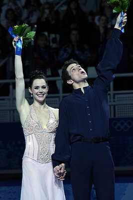 Tessa Virtue and Scott Moir at the 2014 Winter Olympics